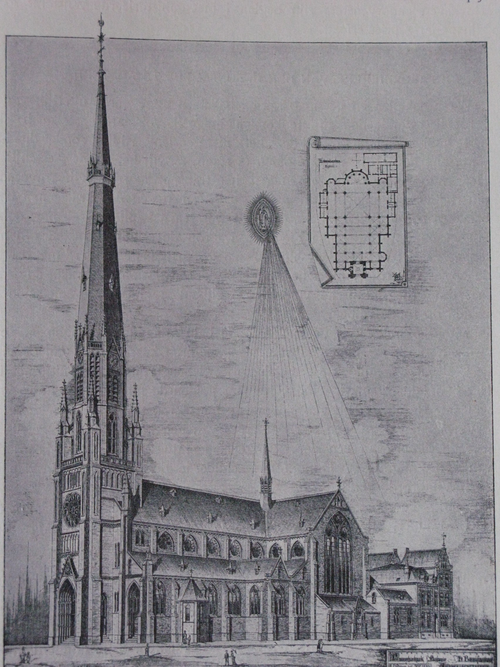 Original design drawing of the Bonifatiuskerk, catholic church in Amsterdam, Build 1884-1886, demolished 1984. The tower was added in different form in 1925